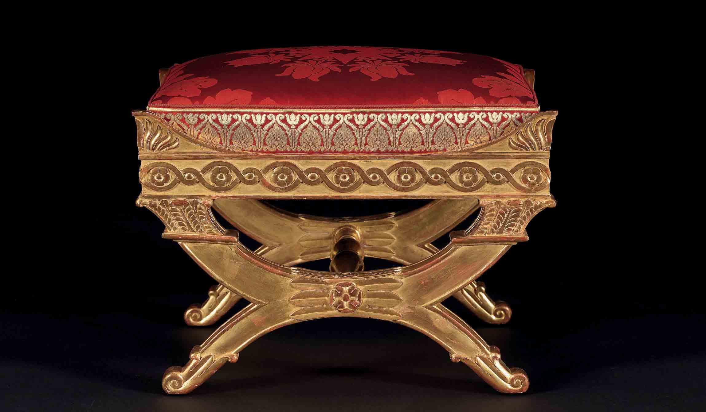 Sella Curulis - Curule Seat (one of a pair): Wood carved and gilded. Possibly Berlin around 1810. The desgin probably by Karl Friedrich Schinkel. Provenance: Property of a private collector in Belgian where bought in unrestored condition by renowned dealer Dirk D. Maeyaert, Koningin Elisabethlaan 20, Brugge, Belgian, who had them restored an upholstered with the present fabric (before they were covered with a pale green silk damask with white flowers). Later with dealer Marc-Arthur Kohn, Paris, who offered them at auction in Monaco. In 2012 sold by Koller Auctions, Zurich, Lot 1170 (estimation: CHF 55'000.-), with an expertise by the Cabinet Dillée, Guillaume Dillée/Simon Pierre Etienne, Paris, to a Swiss private collector.